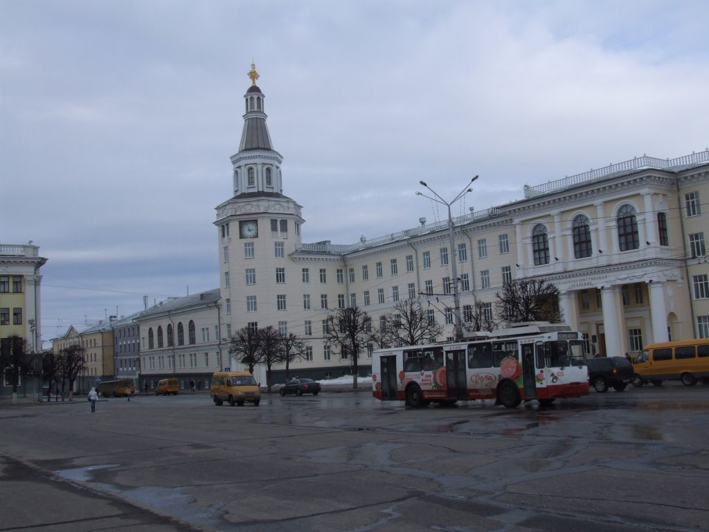 Public transport at the Square of Republic, Cheboksary